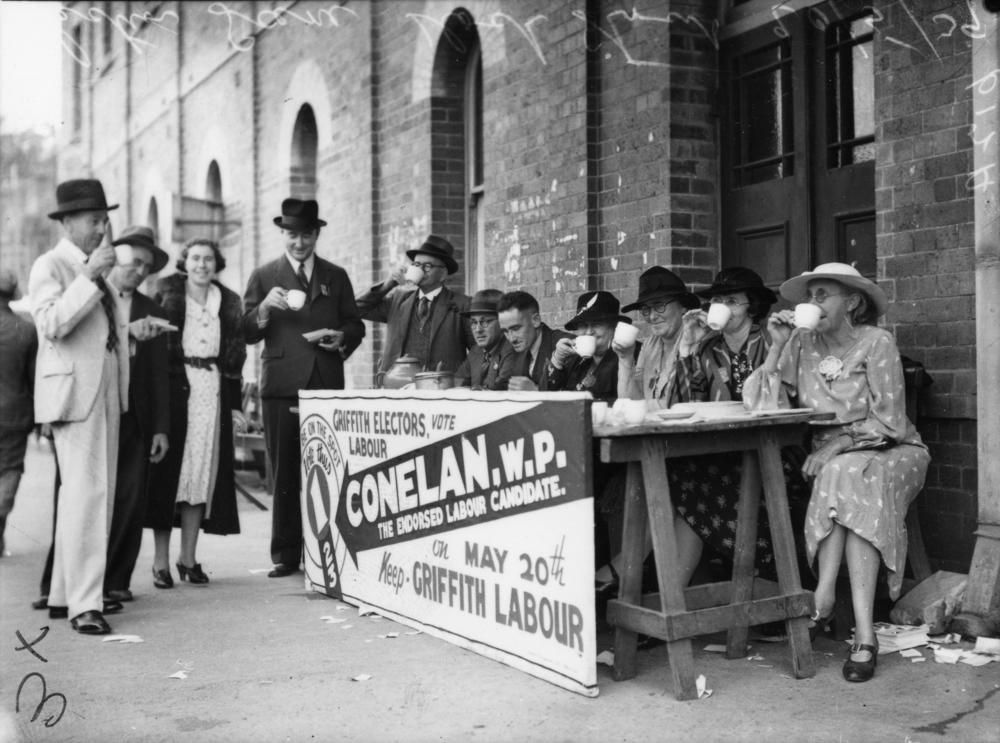 Elections in Brisbane, 1939. Comment : This shows Labor supporters and table with literature for William Conelan, Labor candidate for the Griffith bye-election on 20 May 1939, which he won.